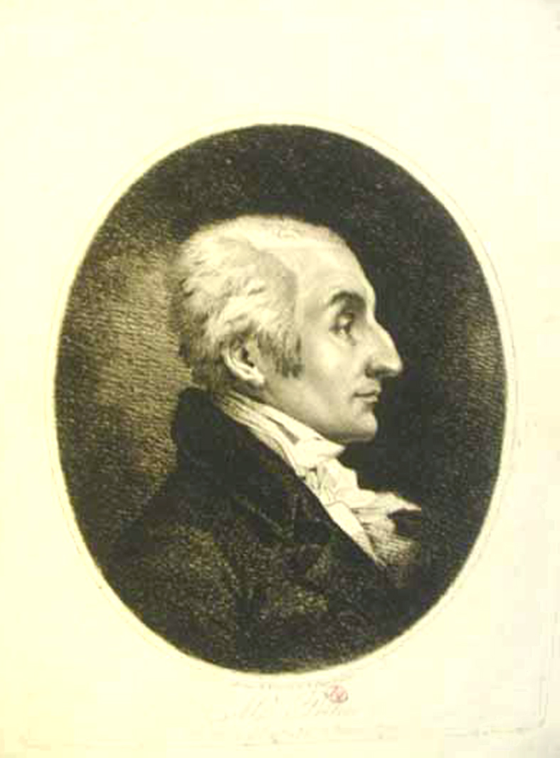 Jean-Gabriel Peltier, d’après Huet Villiers, 1807, Musée Carnavalet, Paris ©.